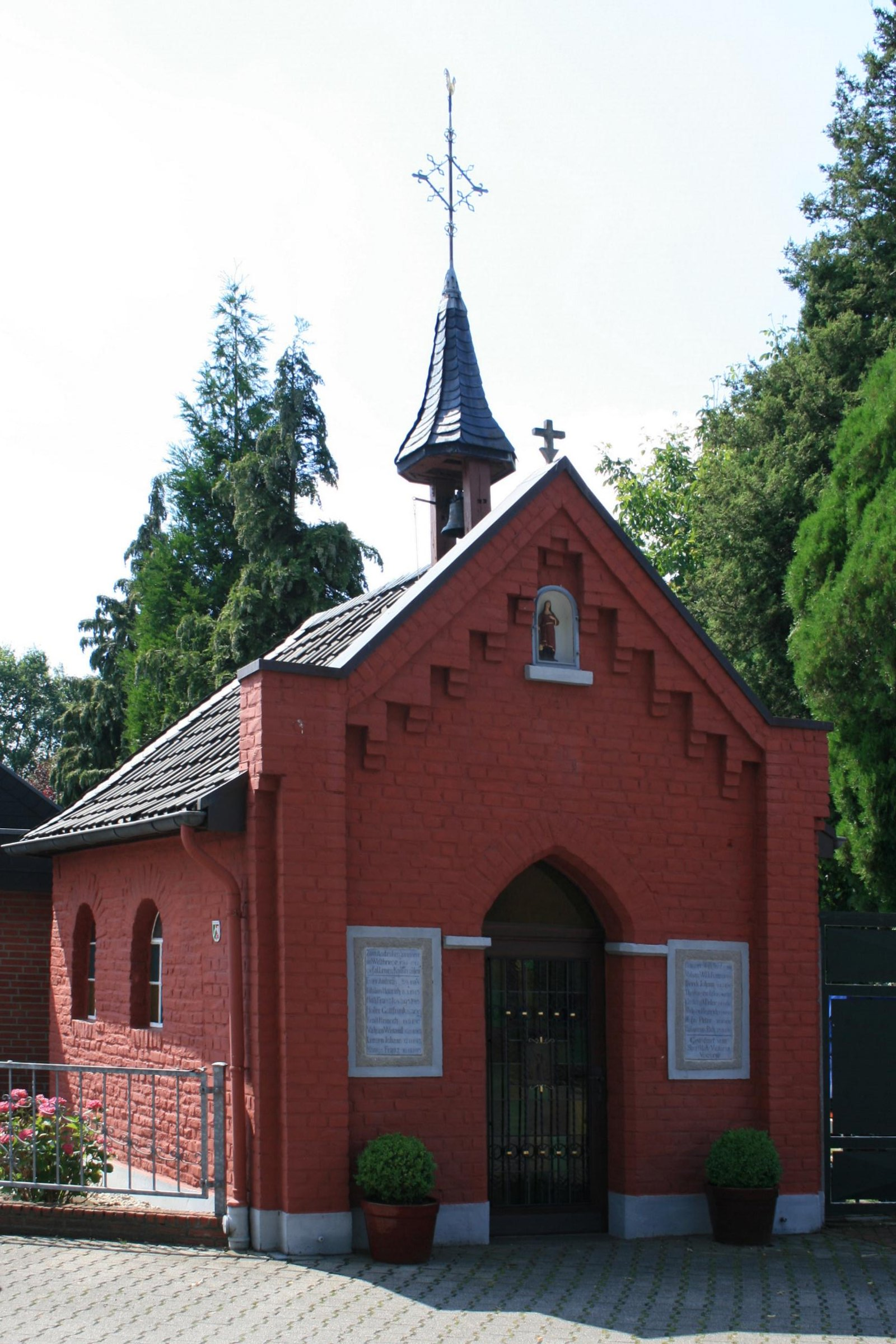 Cultural heritage monument No. V 009 in Mönchengladbach